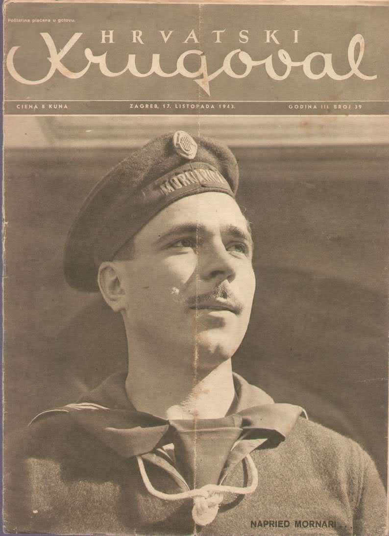 cover of "hrvatski krugoval" magazine, ww2